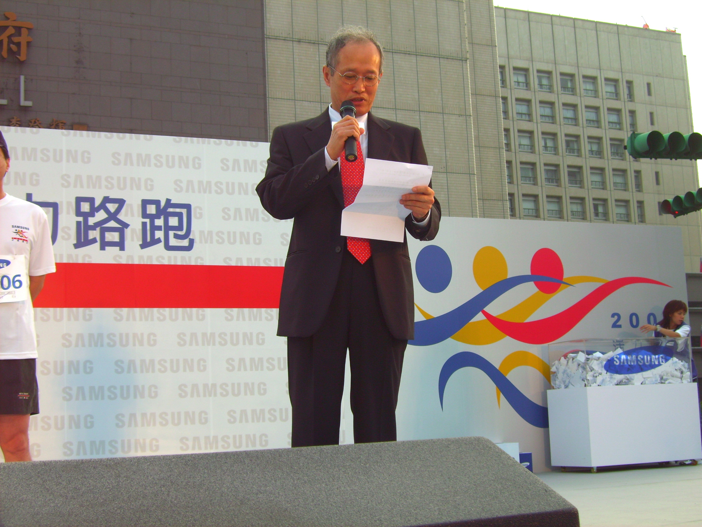 Representative of Korean Mission in Taipei Oh Sangsik @ 2006 Samsung Running Festival Taipei.中文（台灣）: 2006三星活力路跑，駐台北韓國代表部代表吳相式。